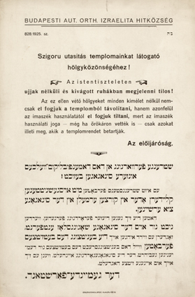 A declaration of the Orthodox community in Budapest, published 1925.